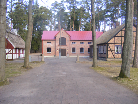 Ängelholms hembygdspark Lädermuseet med Luntertunstugan på Vänster sida och Grönvallska huset på höger